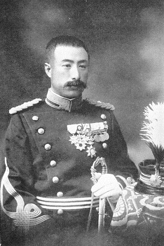 Hideo Yamada (Count)